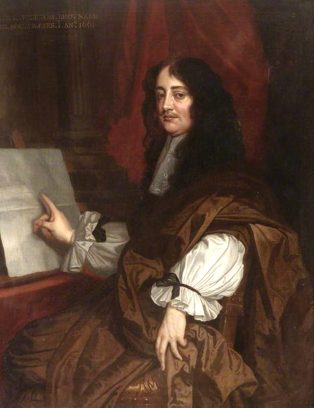 William Brouncker (1620-1684), mathematician